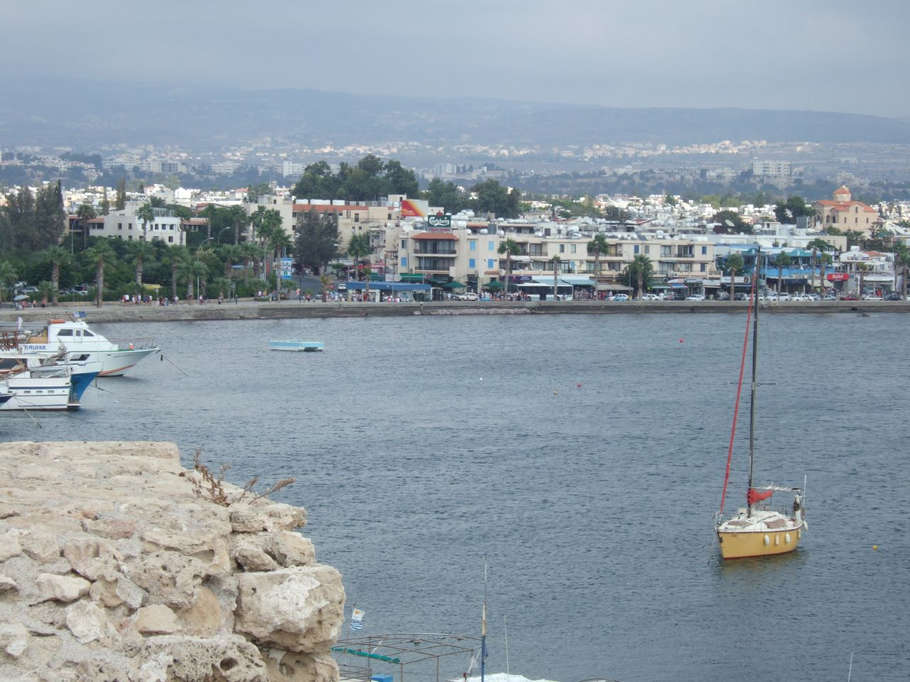 Paphos, CiproHarbor